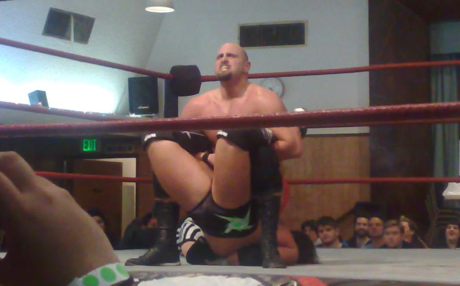 Professional wrestler Karl Anderson holding Frankie Kazarian in a Boston crab at a Pro Wrestling Guerrilla event